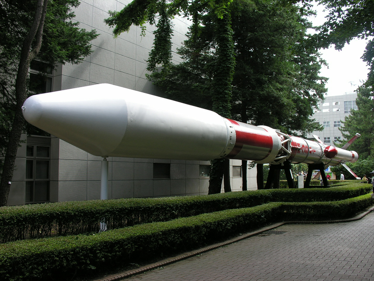 The real-size exhibition model of M-3SII rocket, at Sagamihara Campus (ISAS/JAXA)